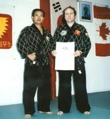 mestre treino